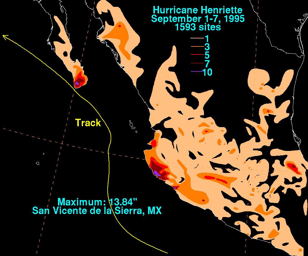 Rainfall produced by Hurricane Henriette during September 1995.